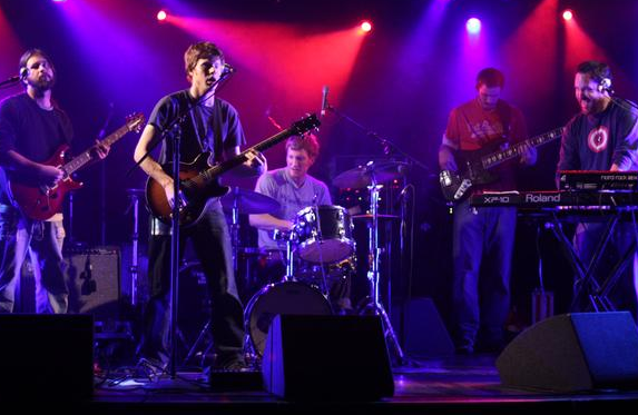 Stage Picture of The Heavy Pets, 2009